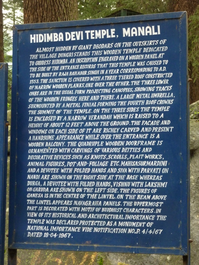 I took this photo on a trip to India in 2010.